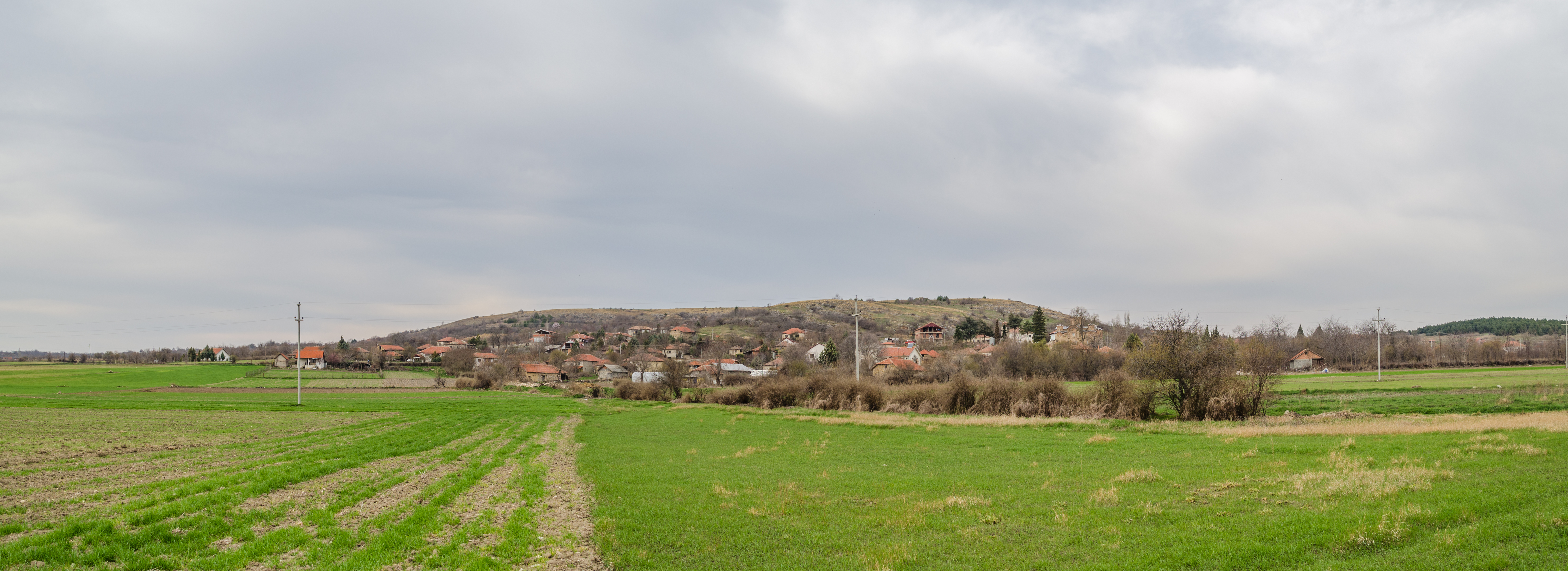 Panoramic view of Staro Nagoričane